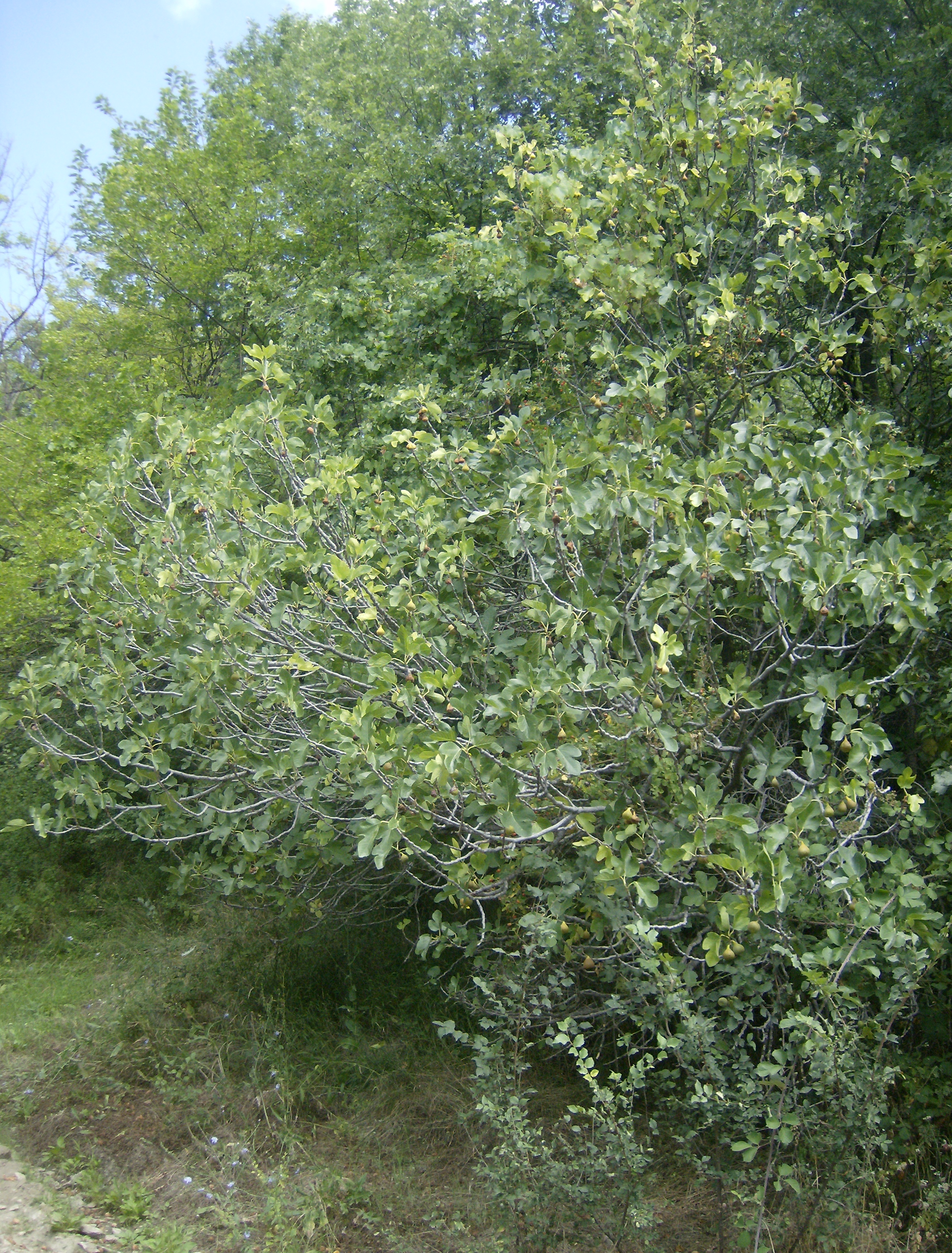 Fig at Rogozovo